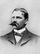 Photo of T.H. Lowry